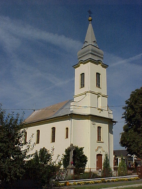 Roman catholic church in Ramocsaháza, Hungary